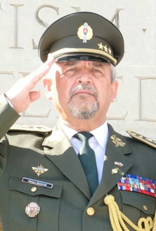 Slovak Republic Chief of Defense Lt. Gen. Milan Maxim salute during cannon fire for the opening ceremony of the Indiana and Slovak Republic 20th Anniversary State Partnership Program Celebration in Indianapolis at the Indiana War Memorial, Saturday, May 16, 2014.